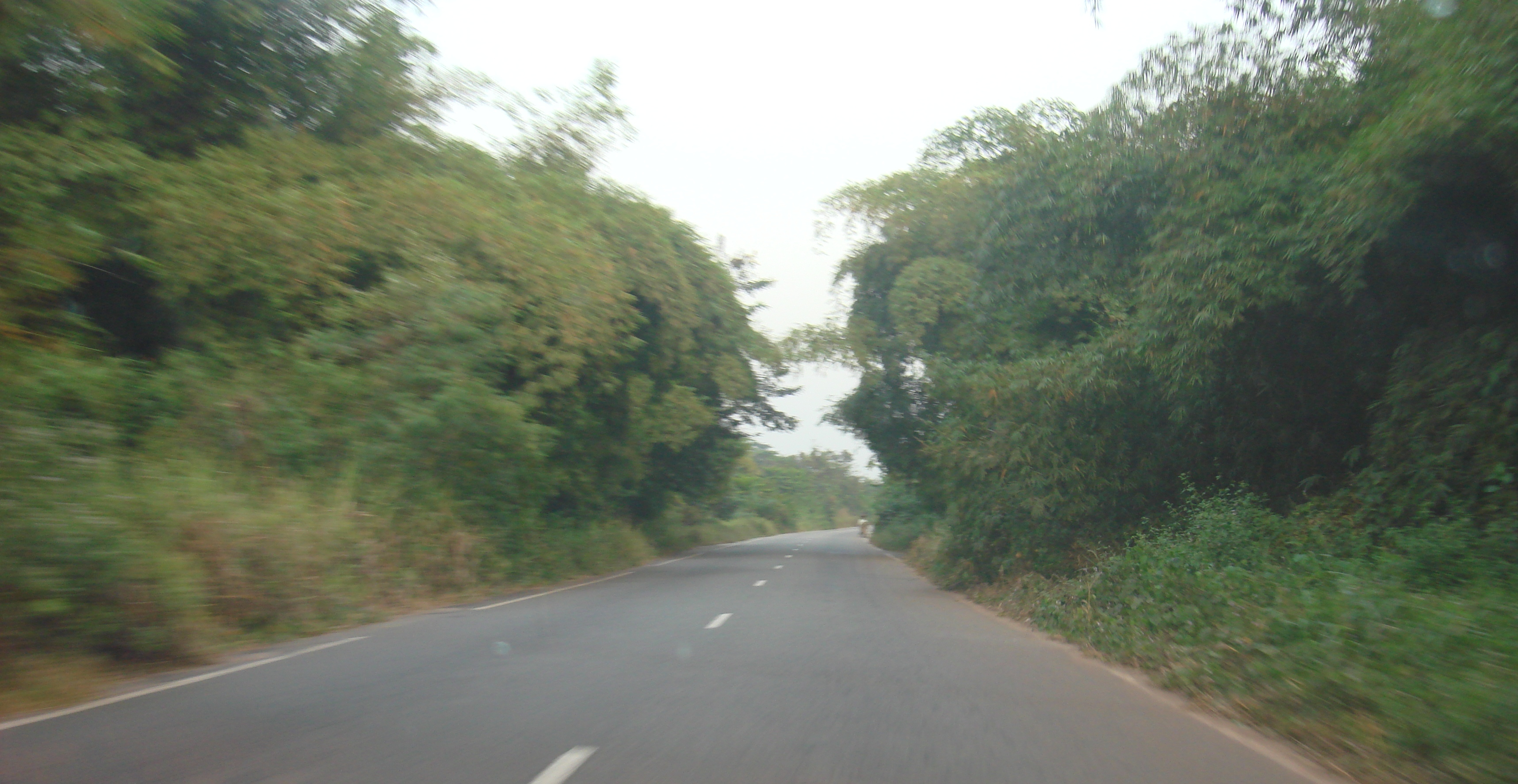 Road in Agboville area, Côte d'Ivoire.